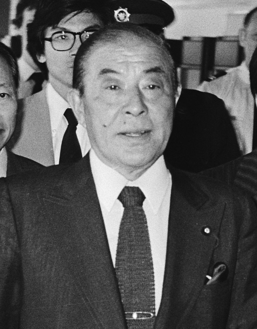 Sunao Sonoda at Amsterdam Airport Schiphol